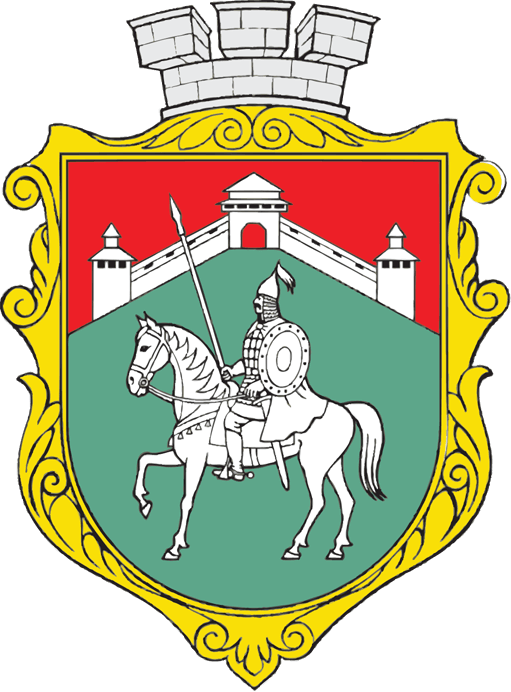 Coat of Arms of the city of Tetiiv, Kyiv Oblast, Ukraine